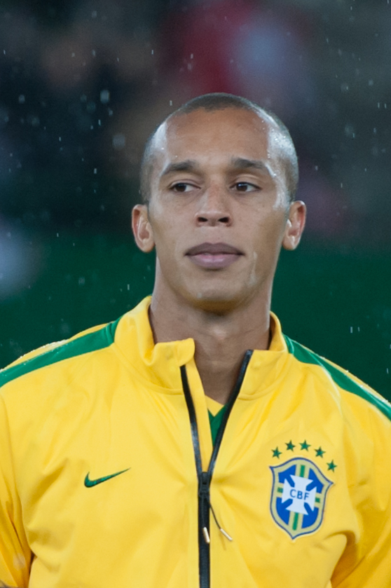 International Friendly Austria - Brazil November 18, 2014: Miranda